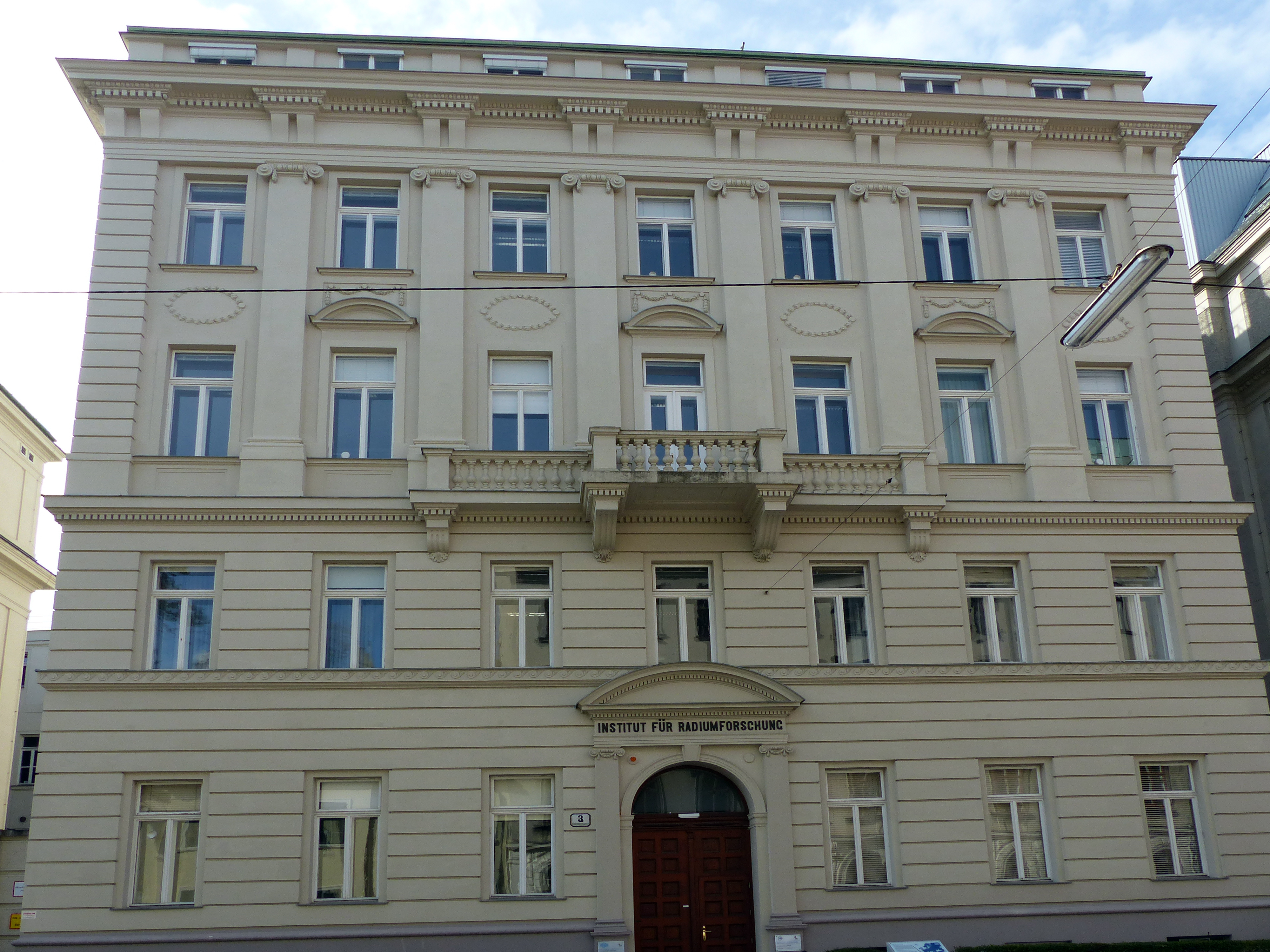 Institute for Radium Research, Vienna